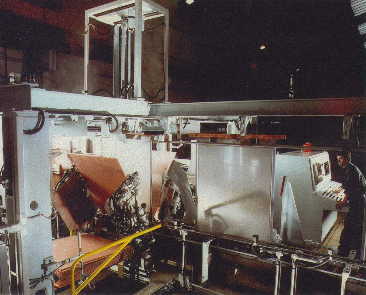 Photograph of a stripping machine used to remove copper cathodes from permanent stainless steel starter sheets.